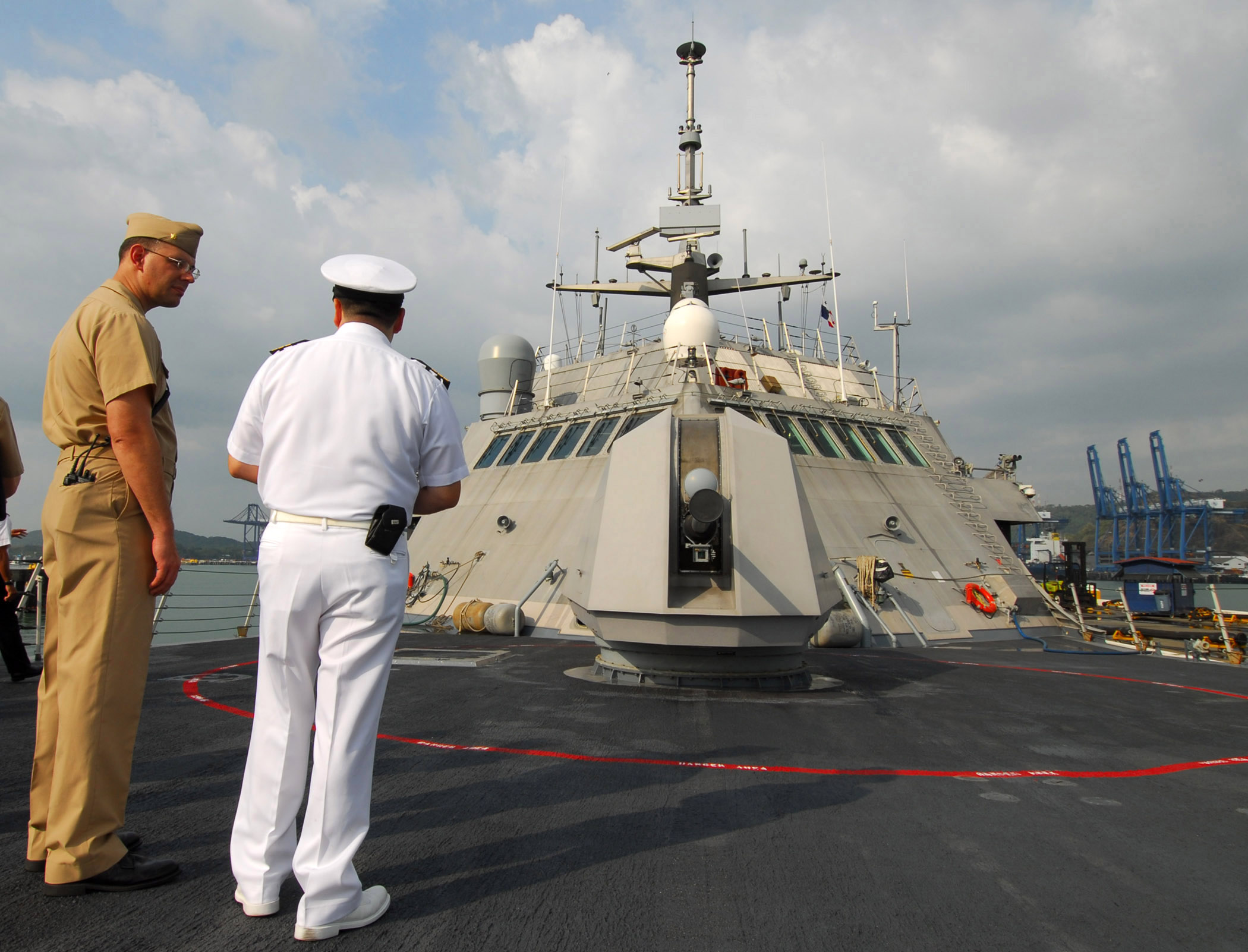 PANAMA CITY, Panama (March 26, 2010) Lt. Cmdr. Matt Weber, executive officer of the littoral combat ship USS Freedom (LCS 1), describes the ship's Mk 110 57mm gun to Chilean Navy Cmdr. Cristian Galvez, Chile's defense attaché in Panama. Freedom is conducting a theater security cooperation (TSC) port visit as part of operations in the U.S. 4th Fleet area of focus. (U.S. Navy photo by Lt. Ed Early/Released)